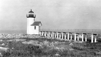 Straitsmouth Island Lighthouse, near Rockport, Massachusetts, USA. Tower built in 1896